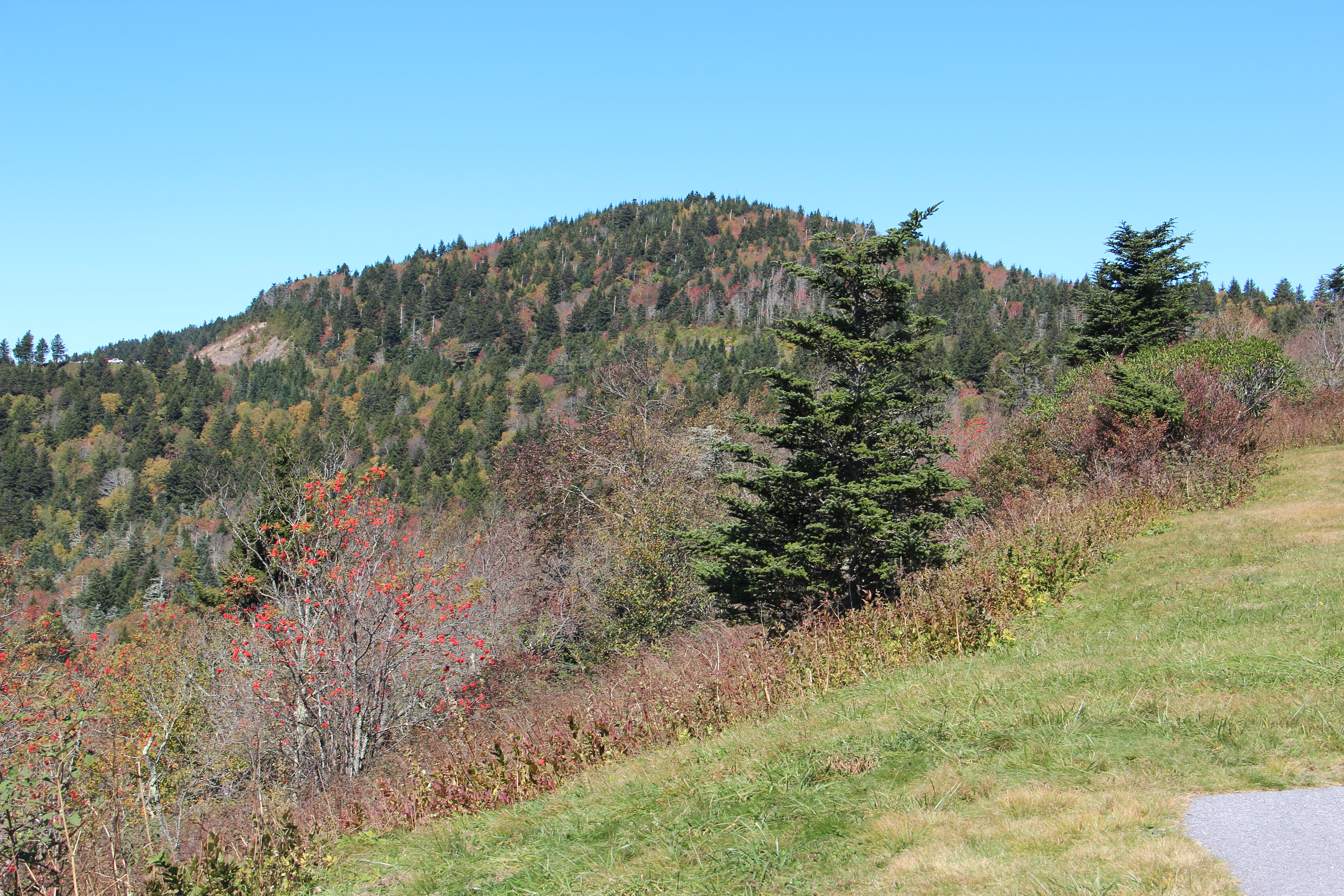 Richland Balsam viewed from Cowee Mountain Overlook, Oct 2016